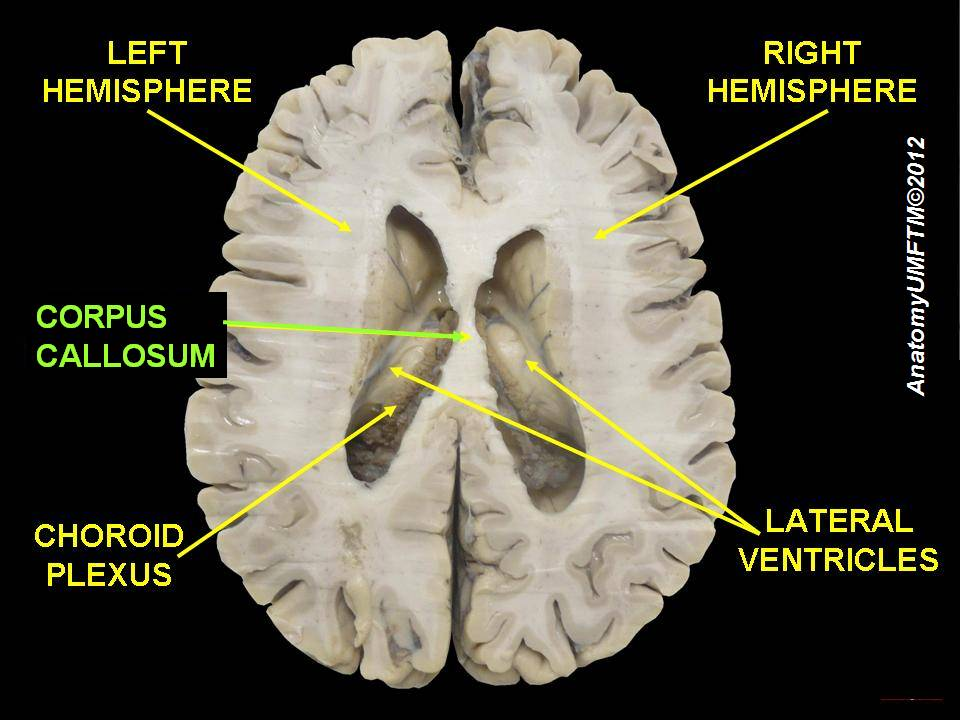 Anatomical dissection